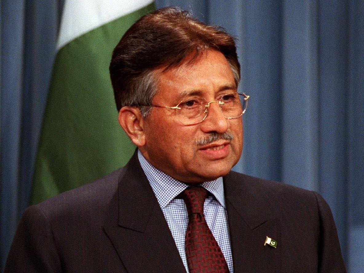 Pervez Musharraf, cropped from Image:Pervez Mushrraf2.jpg for better use on Wikinews